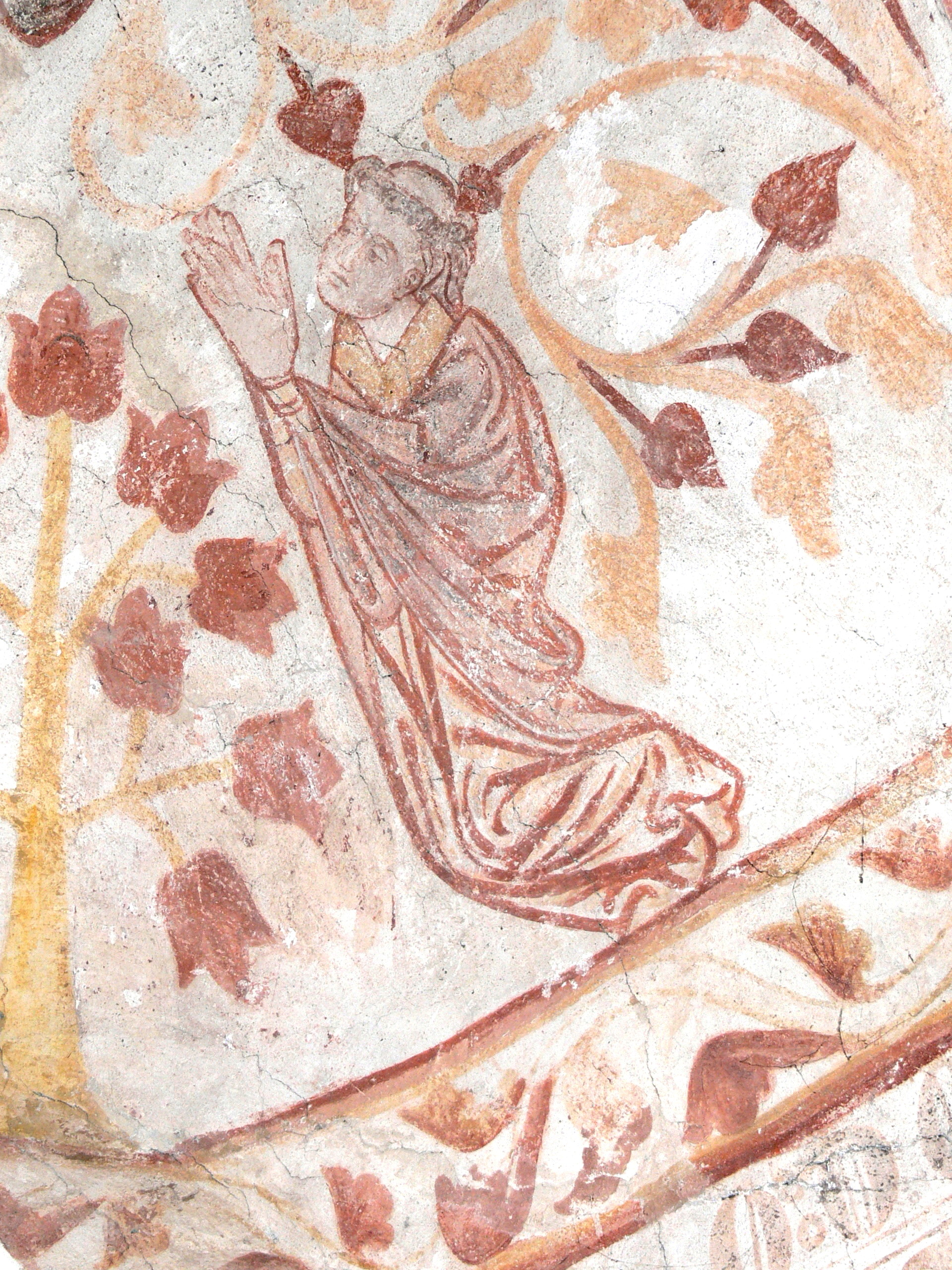 Nørre Alslev church. Frescos in the apse ( 13th century ): Praying Franciscan monk, who probably devoted the church.